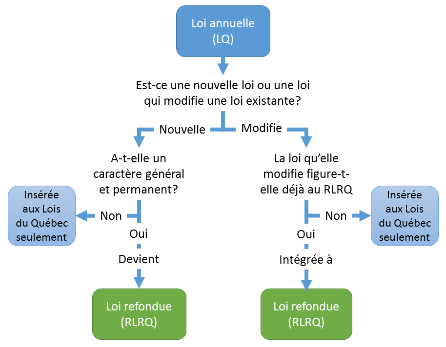 Diagram of the process of classification between the two different types of Quebec Acts.